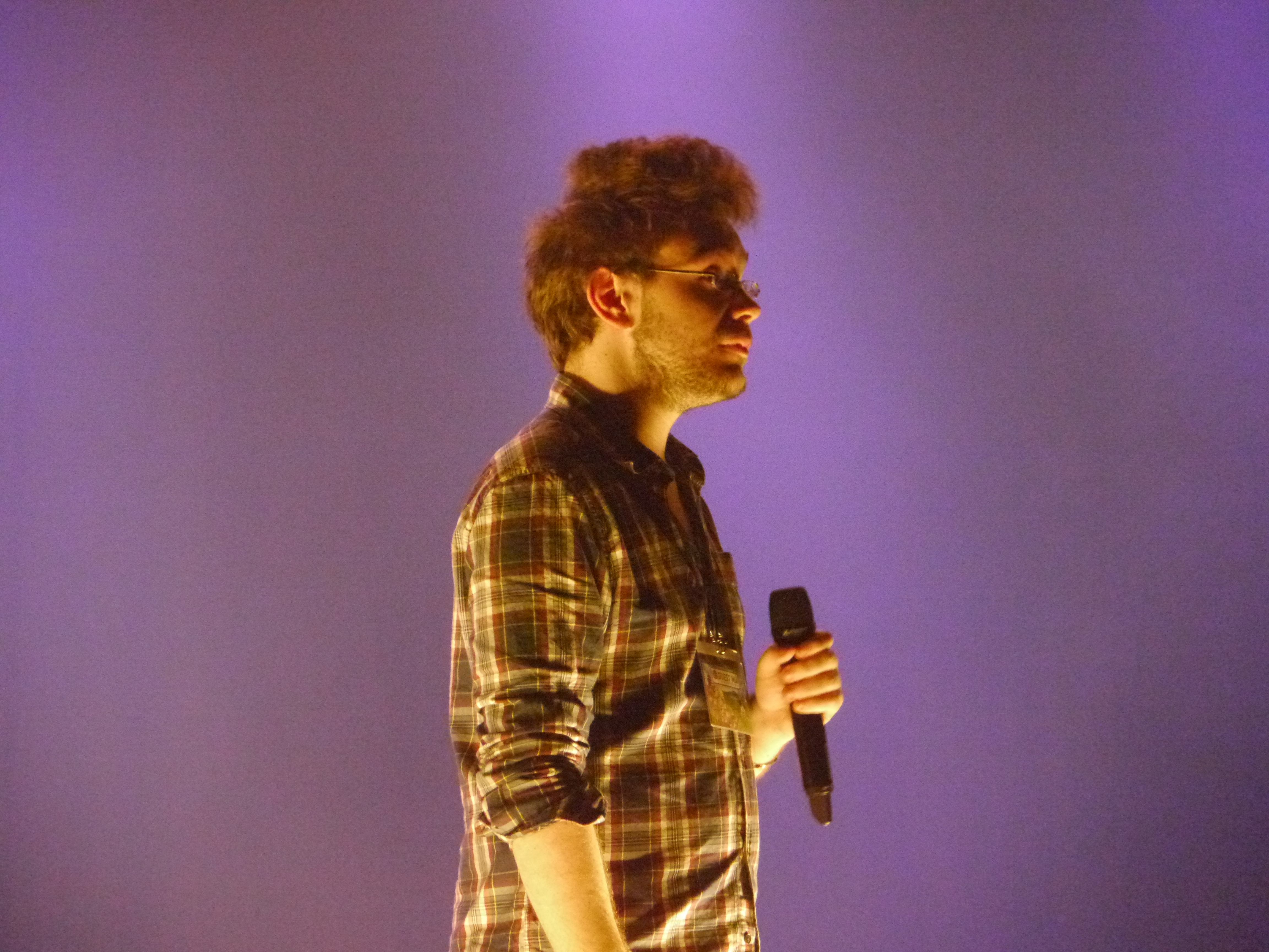 photograph taken during the Made in Asia festival in Brussels in march 2014.